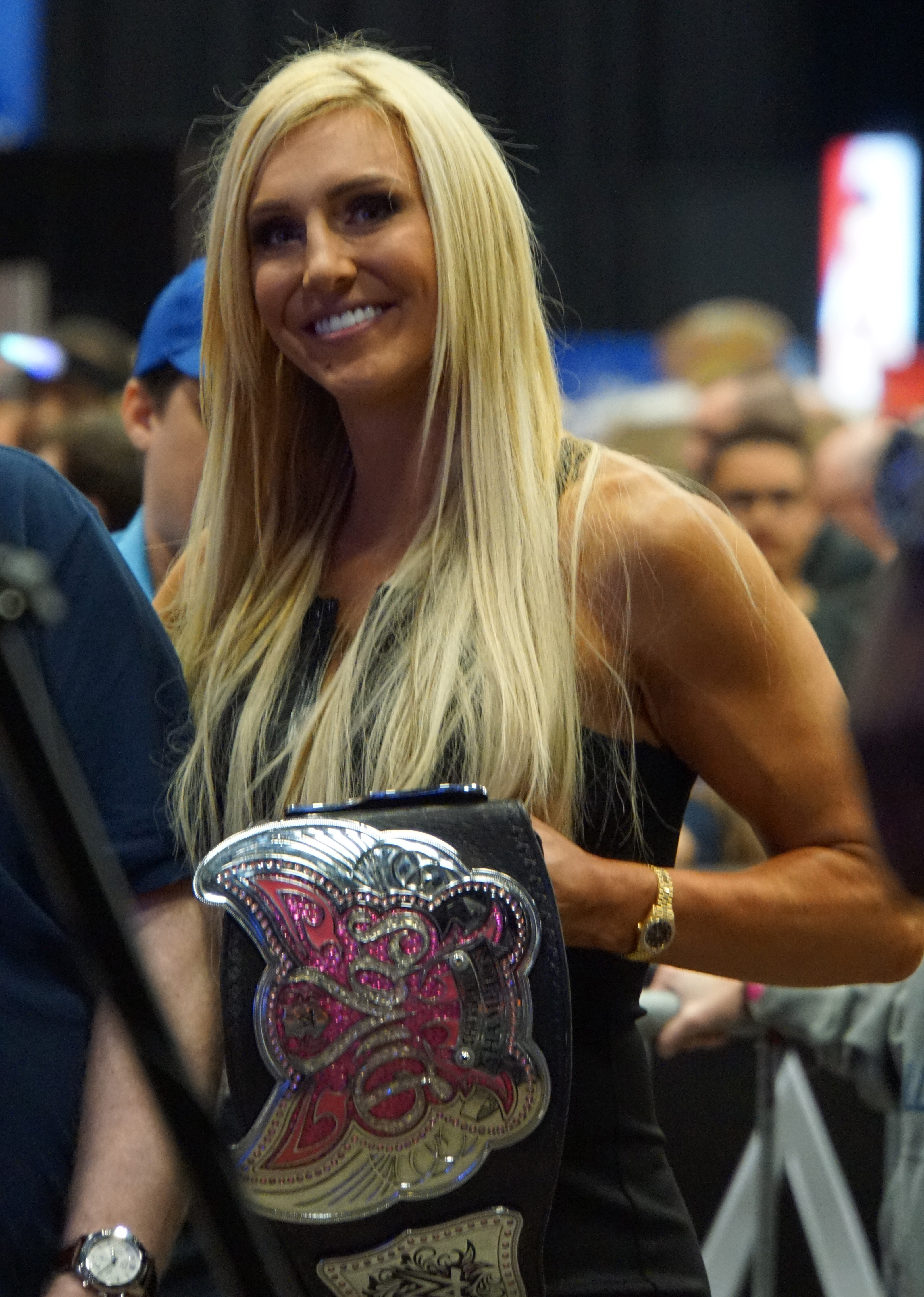 WrestleMania Axxess takes over the Kay Bailey Hutchison Convention Center in Dallas March 31-April 3. Featuring Superstar and Diva meet-and-greets, memorabilia displays and much more, WrestleMania Axxess is one event WWE fans of all ages will want to be part of. Don't miss out!